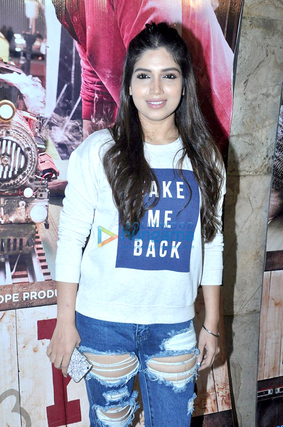 Bhumi Pednekar at the screening of "Ki & Ka"